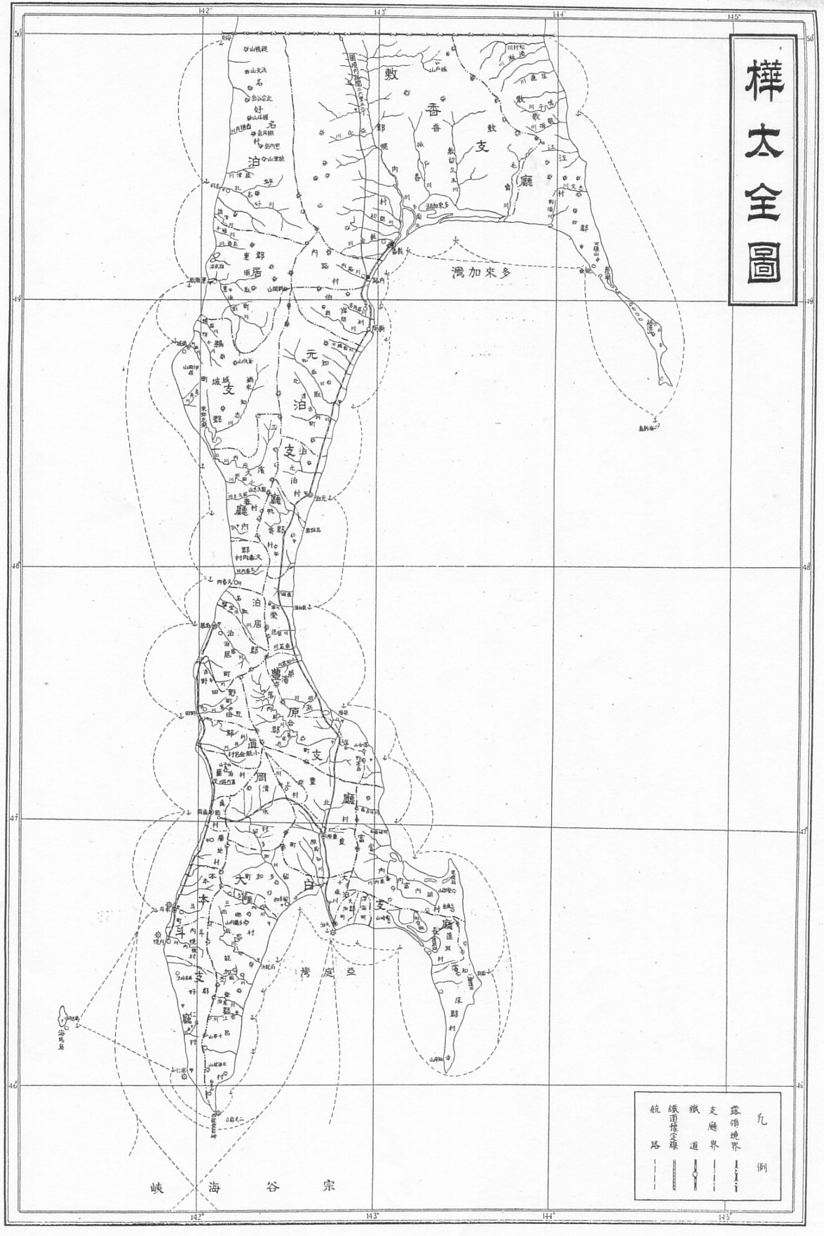 Karafuto map in 1930s